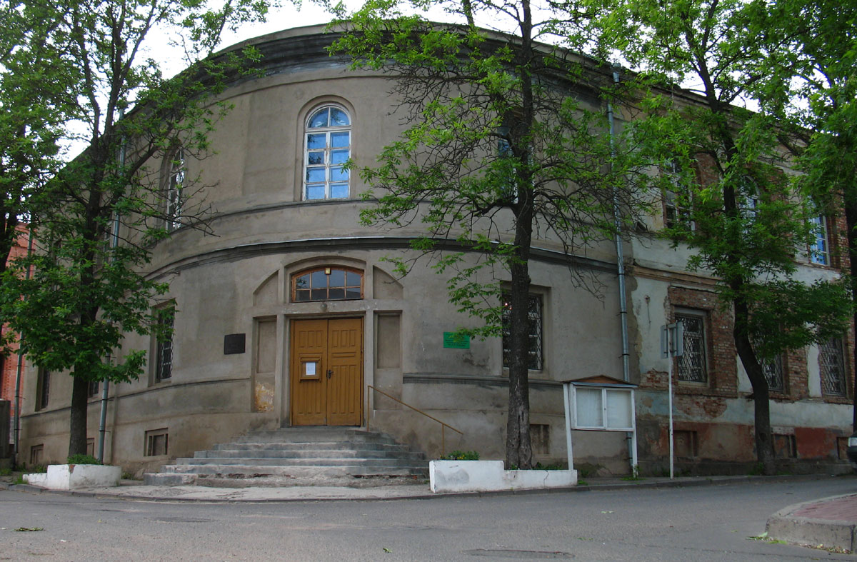 Former basilian monastery in Viciebsk (at p.t. Orthodox eparchy)